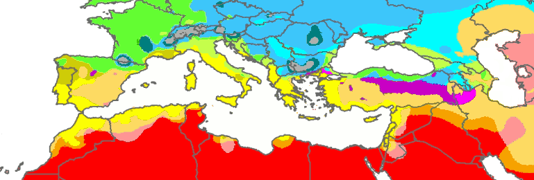 A cropped version of File:Koppen World Map.png (version of 12:15, 13 March 2011), displaying the Mediterranean Sea and the area surrounding it.